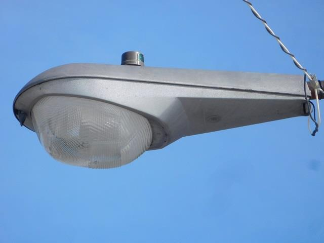 History of street lighting